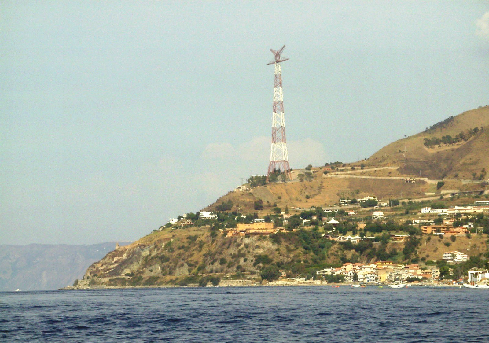 Altafiumara castle and Porticello village photo taken from the sea, near Cannitello, Villa San Giovanni (RC), Italy.